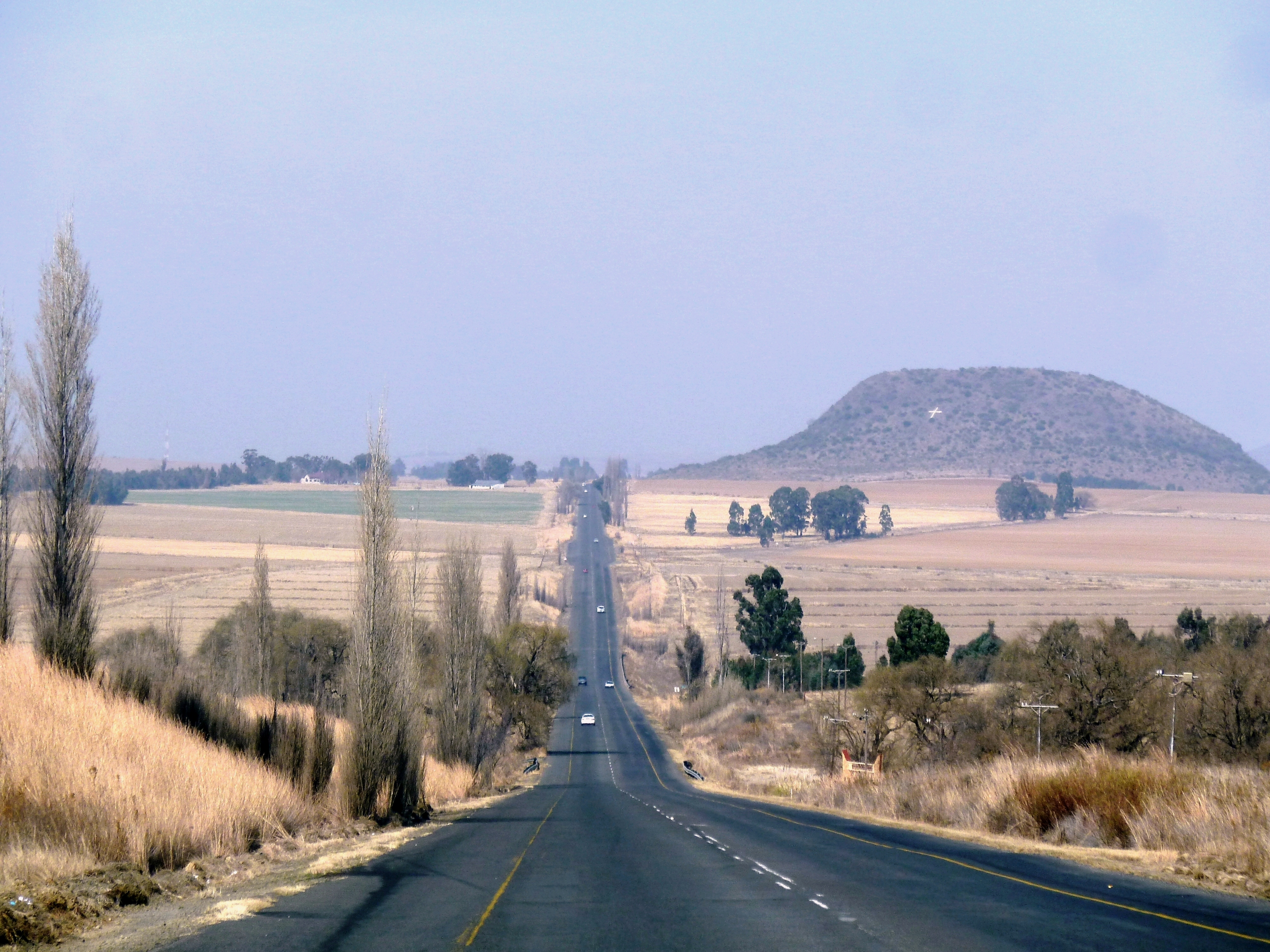 Houtkop (1,751 m), an outcrop of Drakensberg basalt beside the R26 route between Reitz and Daniëlsrus in the Riemland, Free State, South Africa